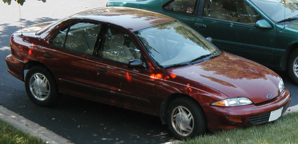 1995-1999 Chevrolet Cavalier photographed in USA.